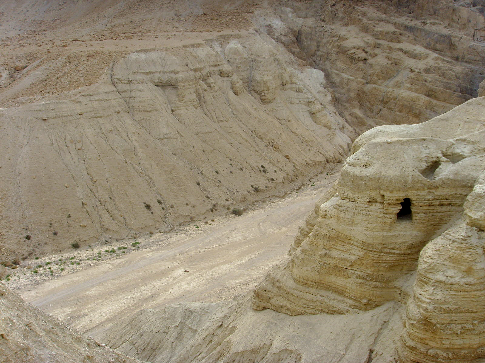 Qumran, the caves in which the scrolls were found